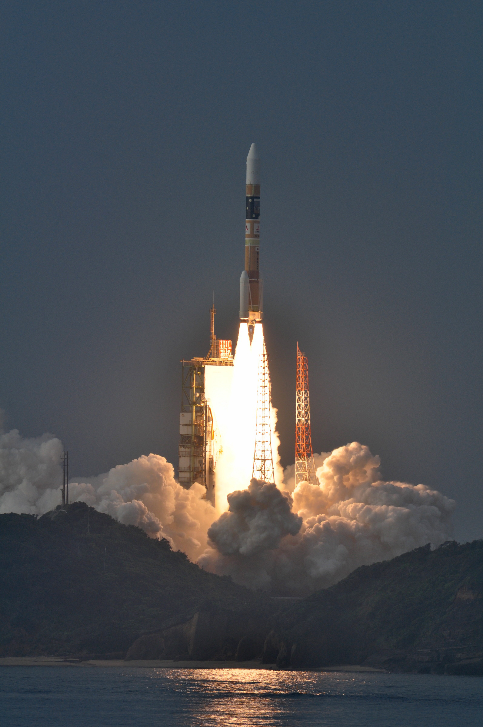 H-IIA Launch Vehicle Flight 17, launching Venus Climate Orbiter "AKATSUKI" (PLANET-C)